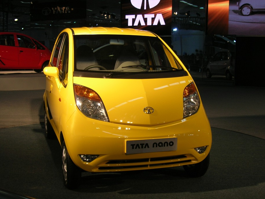 Tata Nano